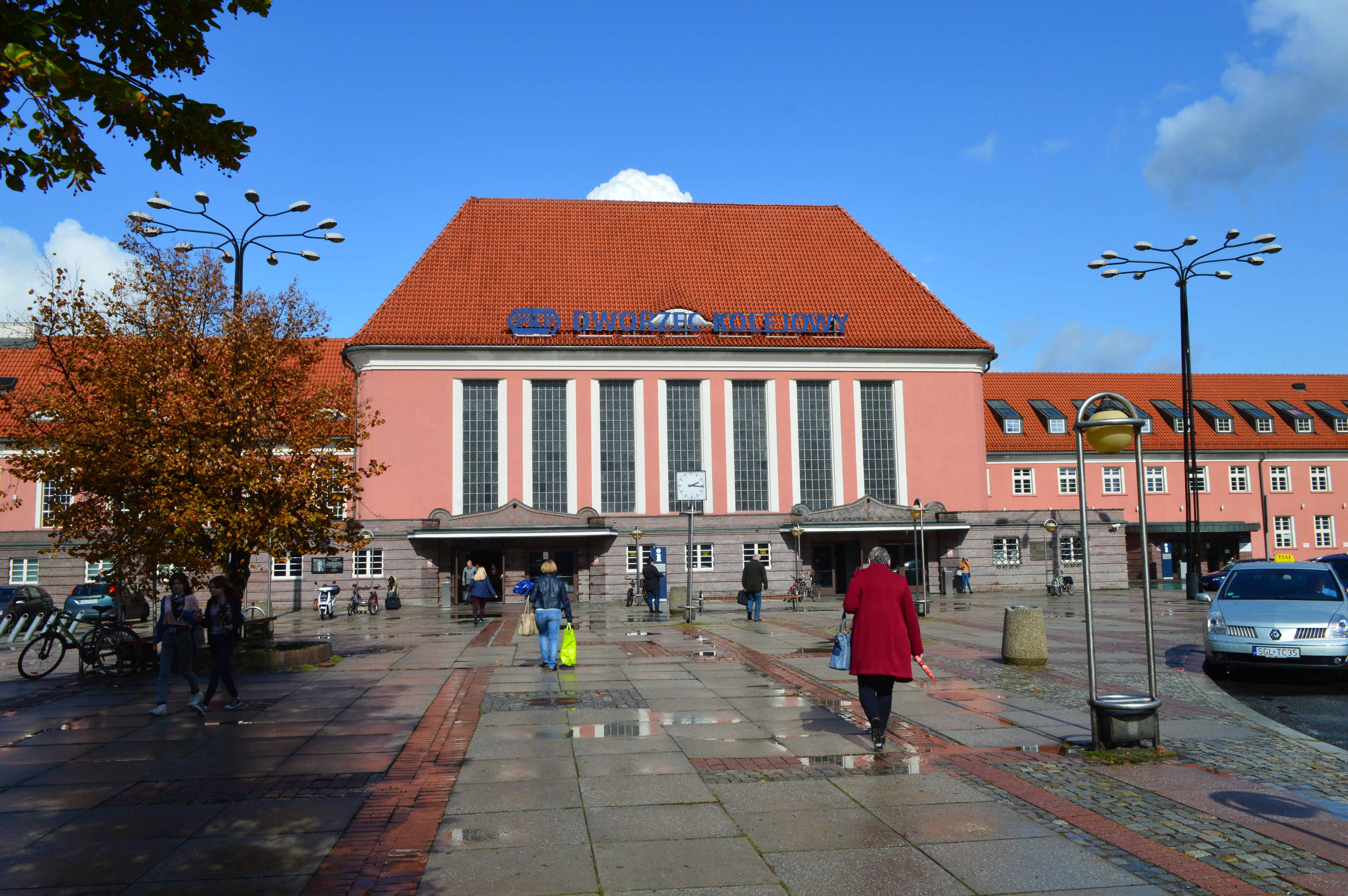 Gliwice is a city in Upper Silesia, in southern Poland. The city is located in the Silesian Highlands, on the Kłodnica river (a tributary of the Oder). It lies approximately 25 kilometres west from Katowice, regional capital of the Province of Silesia. It is one of the major college towns in Poland, thanks to the Silesian University of Technology, which was founded in 1945 by academics of Lwów University of Technology expelled from Soviet Ukraine in 1945-48. The Scotch Mist Gallery contains many photographs of historic buildings, monuments and memorials of Poland.